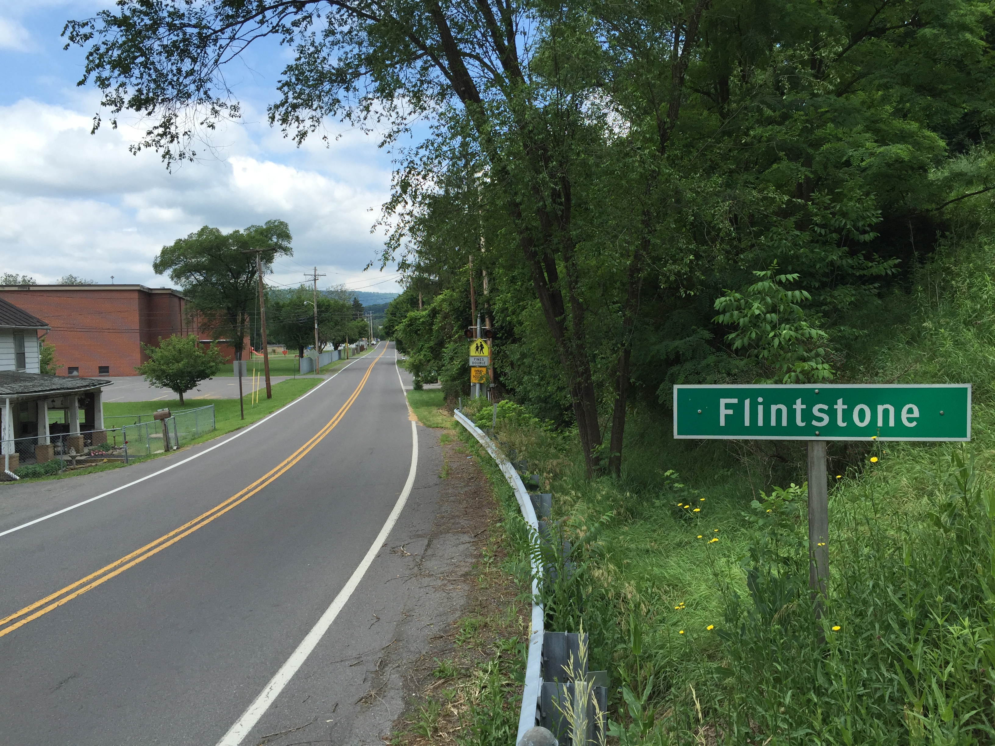 View west along Maryland State Route 144 (National Pike) entering Flintstone, Allegany County, Maryland